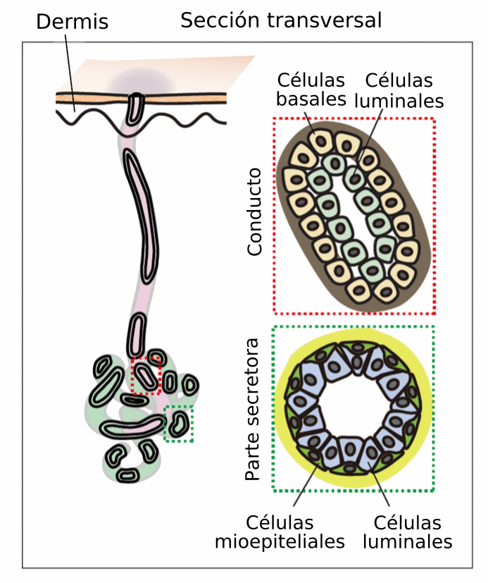 Sweat gland. Left: 3D reconstruction of the secretory glomerulus and duct. Right: top cut of a duct; bottom: cut of a secreting acinus.